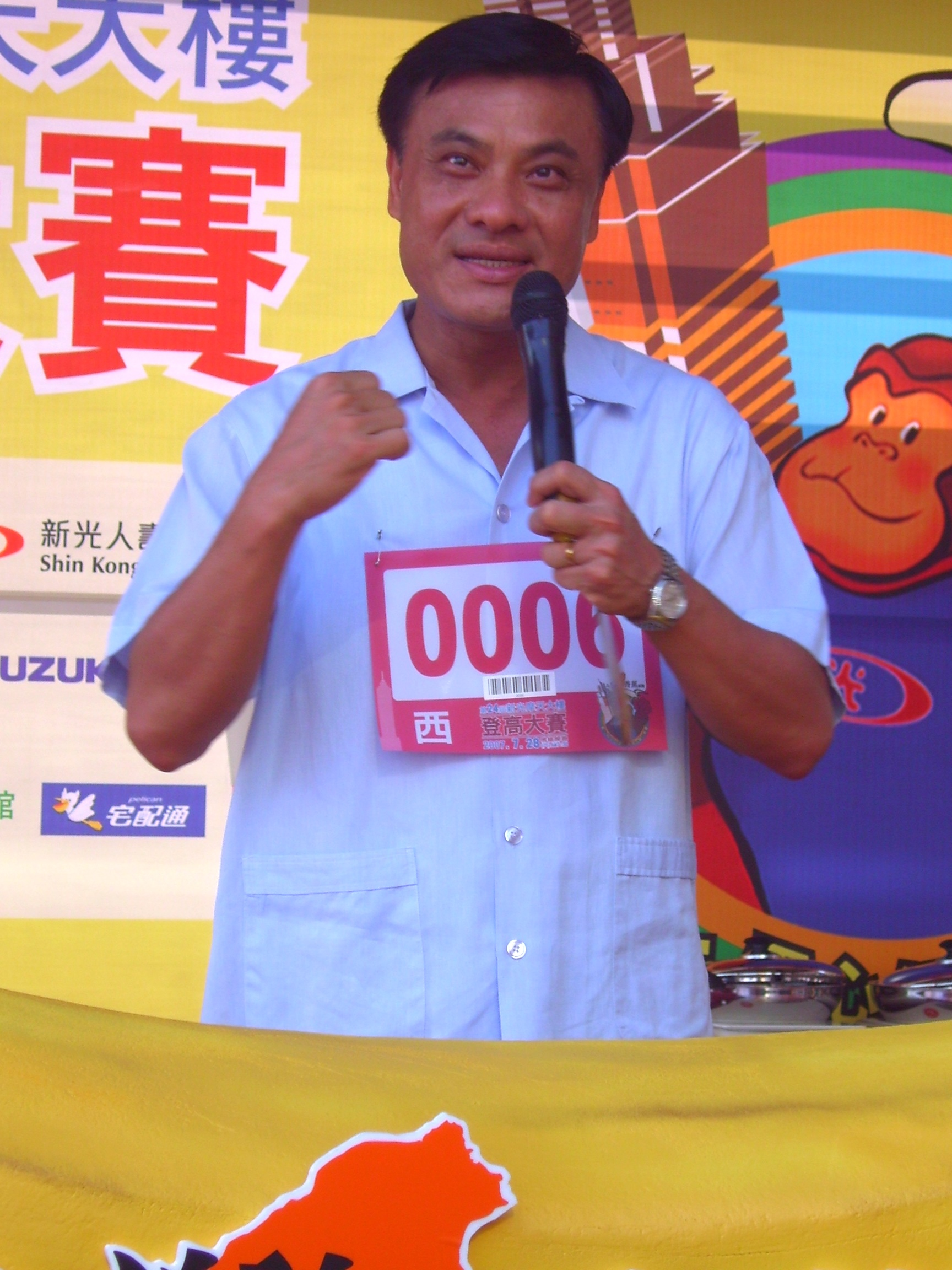 J. C. Su, Chiarman of Council of Agriculture of Executive Yuan, Taiwan.